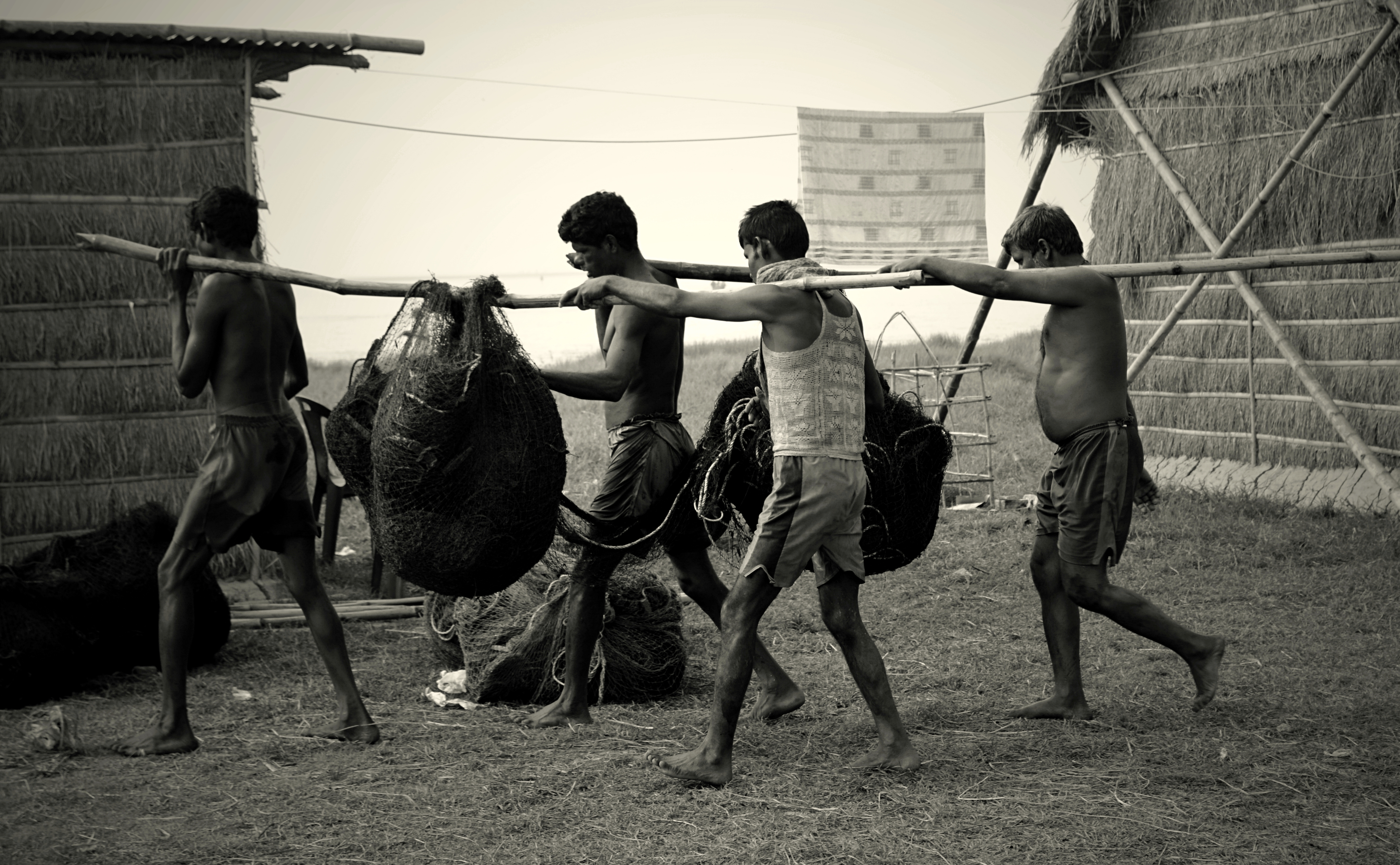 Beauty of Bangladesh